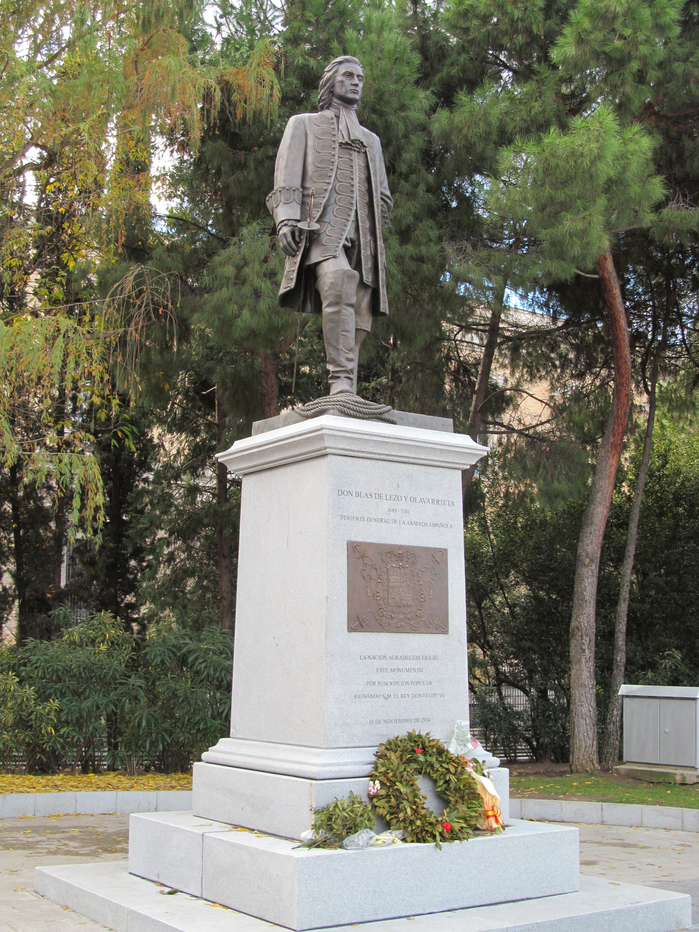 Monument in Madrid to Blas de Lezo, the hero of Cartagena de Indias, an official one-eyed, lame and one-armed of the Spanish Navy which resisted the attack of 195 English ships with just 6 ships during the 18th century.